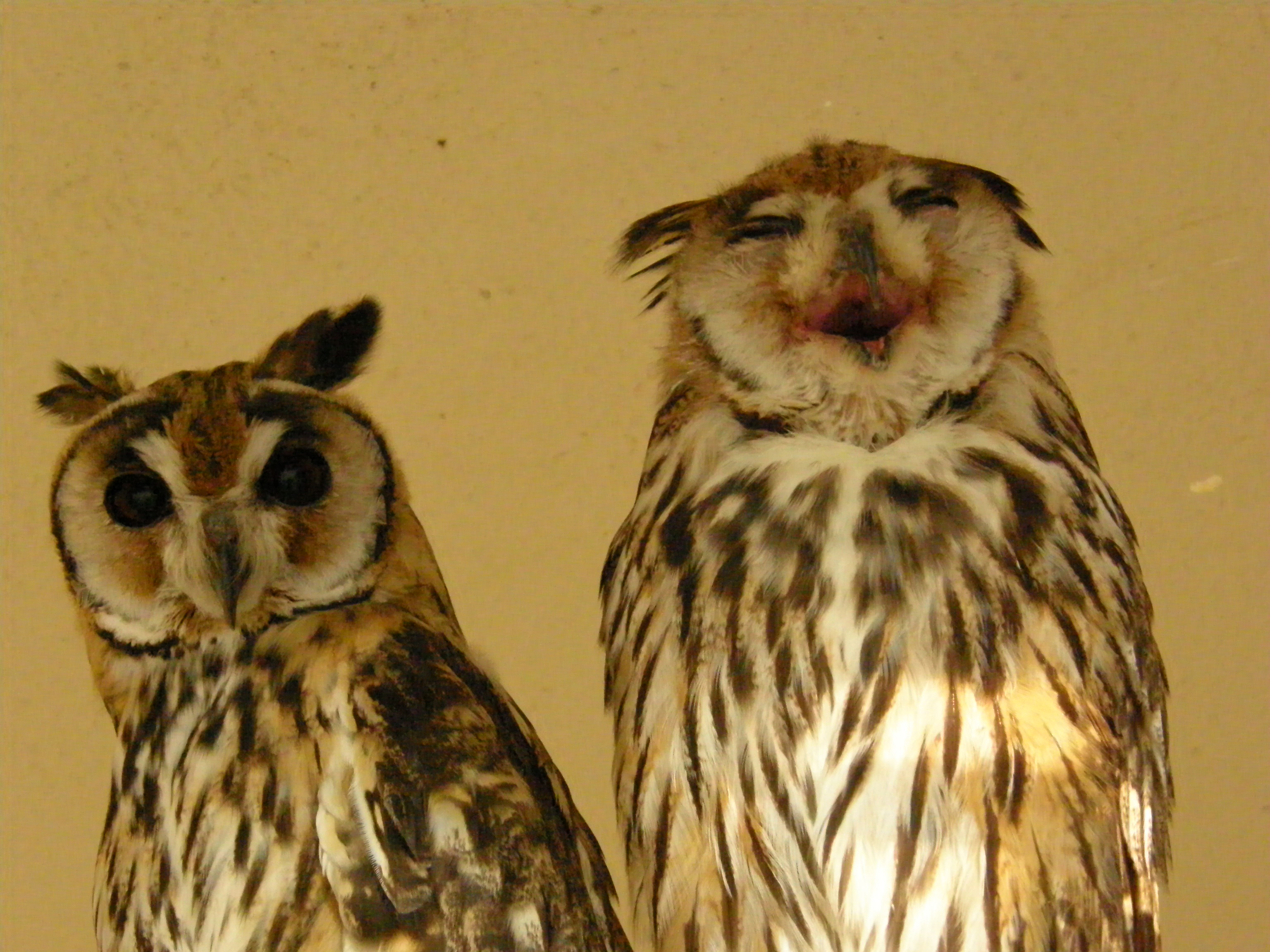 Two striped owls (Pseudoscops clamator). Seems as one of them is singing "I'm bored!!!!"